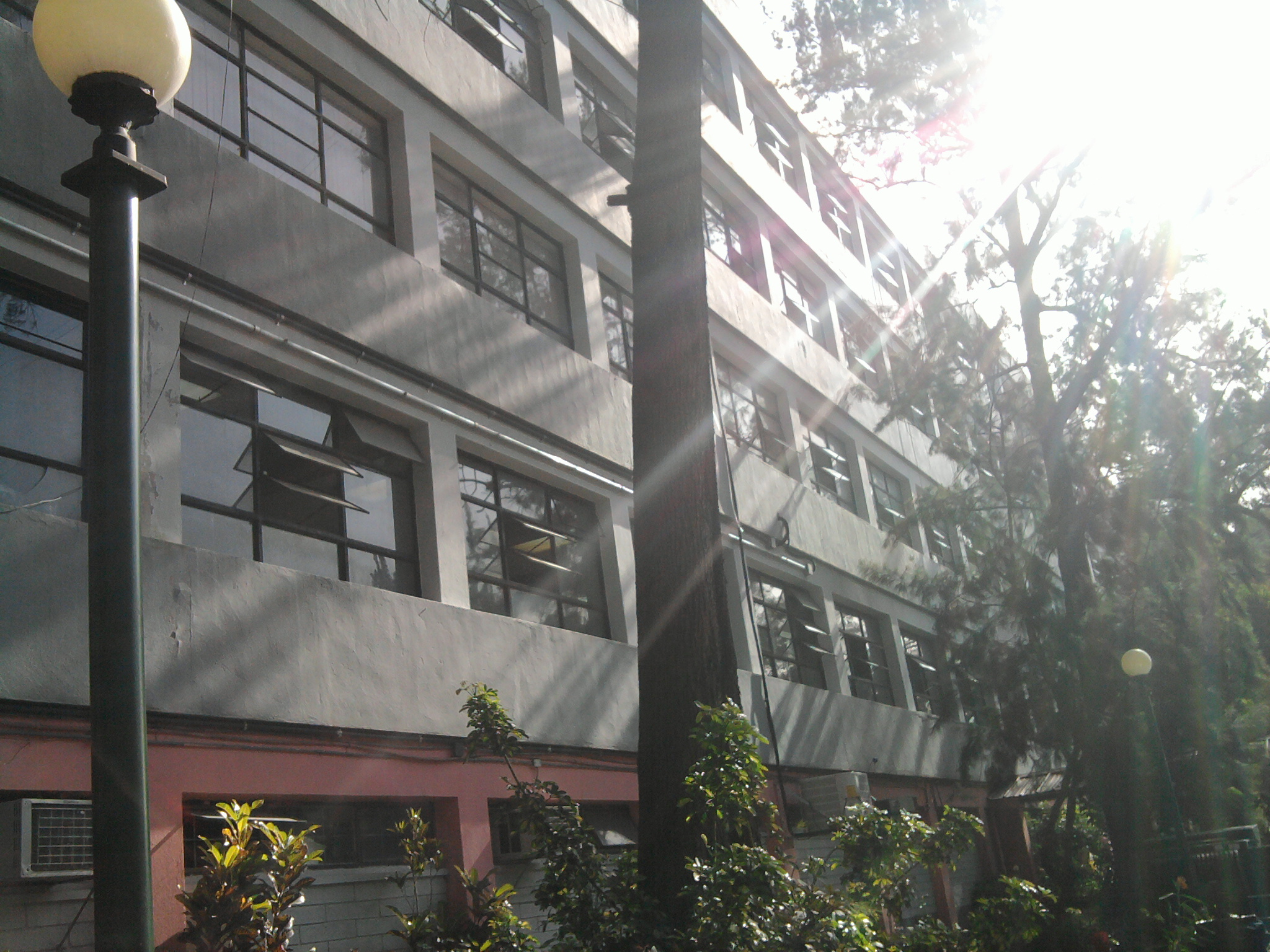 Part of the T-3 building of Engineering Faculty of San Carlos University of Guatemala